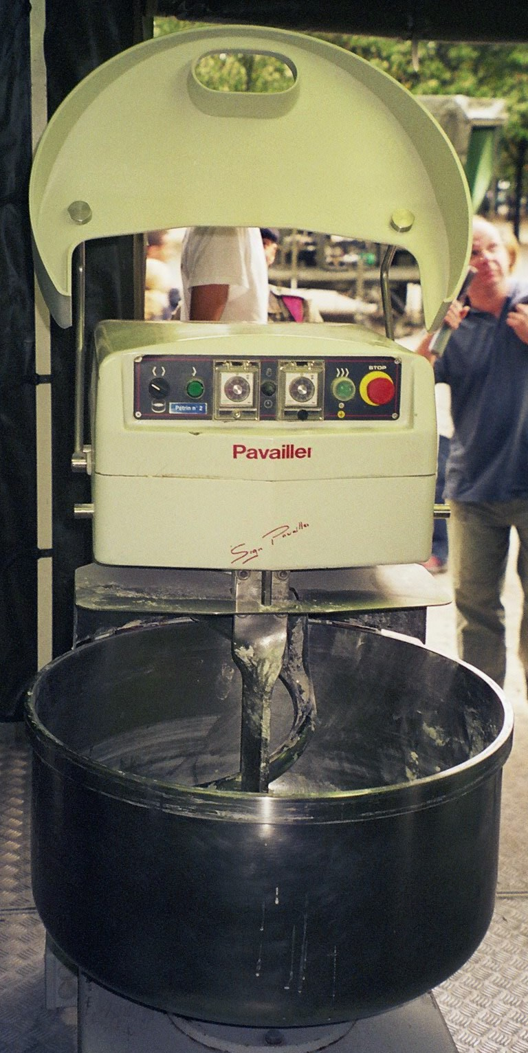 Nation/Defense days, Esplanade des Invalides, Paris, France, September 24-25, 2005